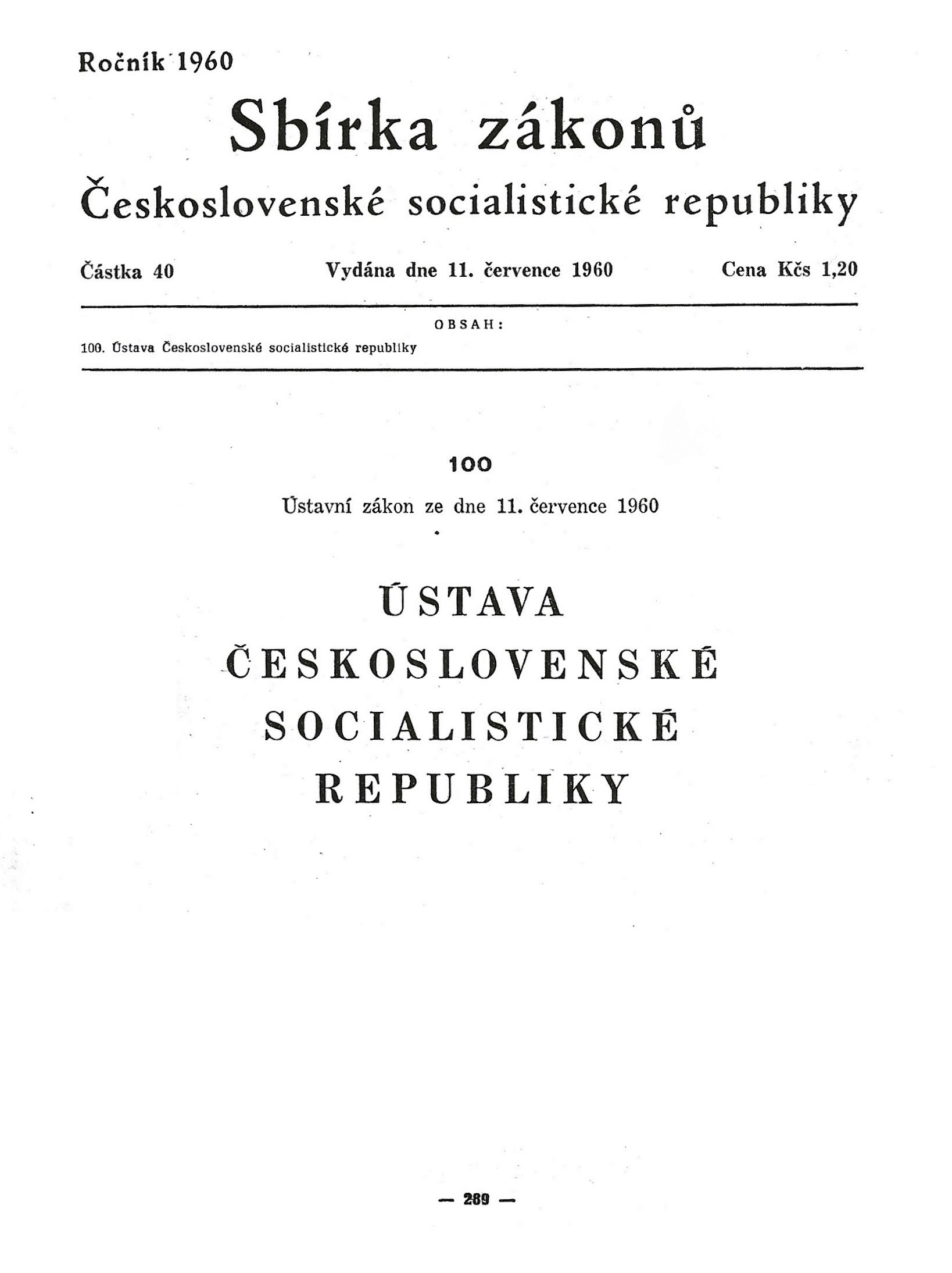 Czechoslovak Collection of Laws' official issue with the 1960 Constitution No. 100/1960 Coll.